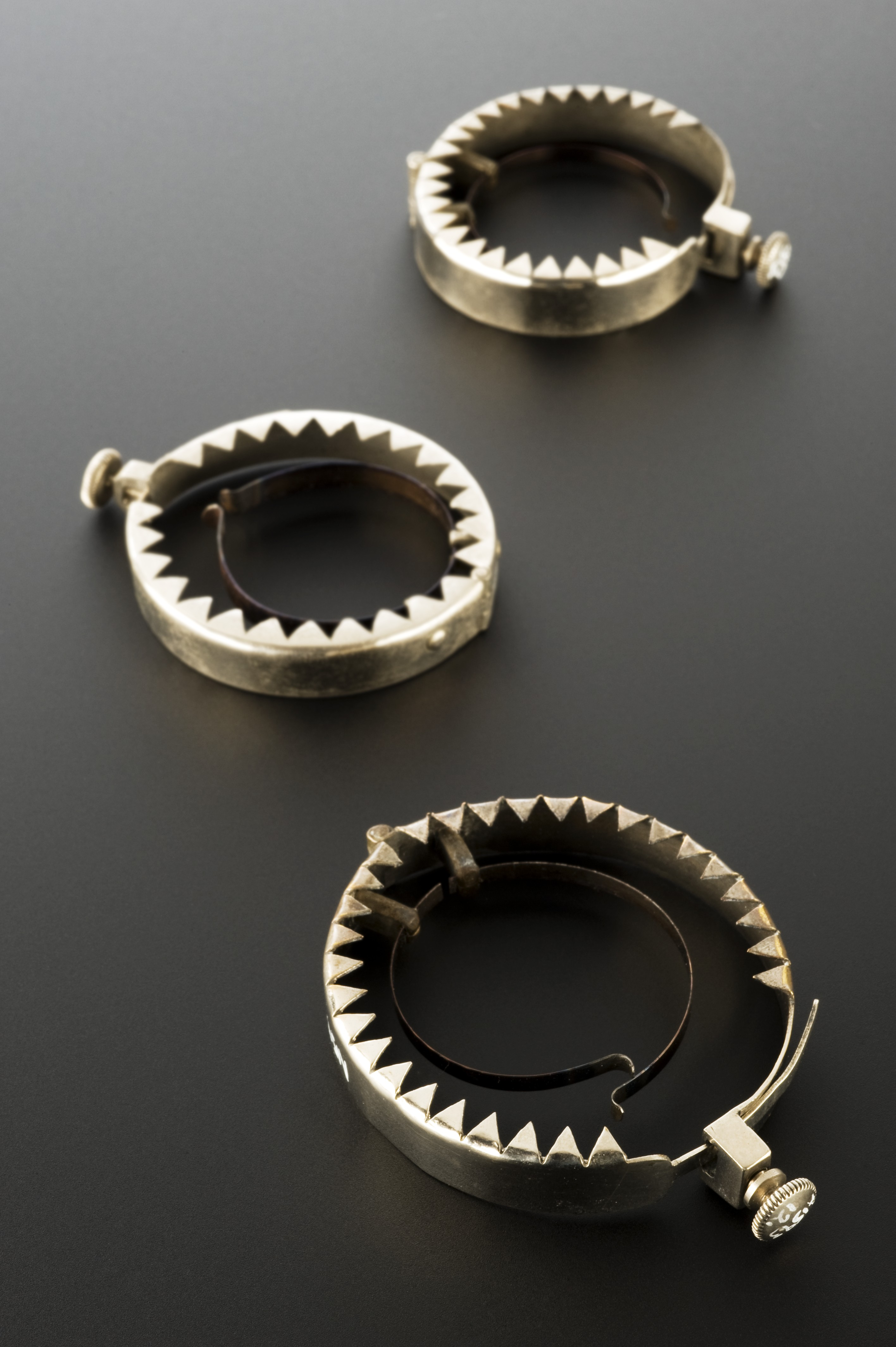 A159313, A159312 & A159311: Jugum penis, steel, nickel-plated, probably British, 1880-1920. Graduated matt black perspex background. Wellcome Images